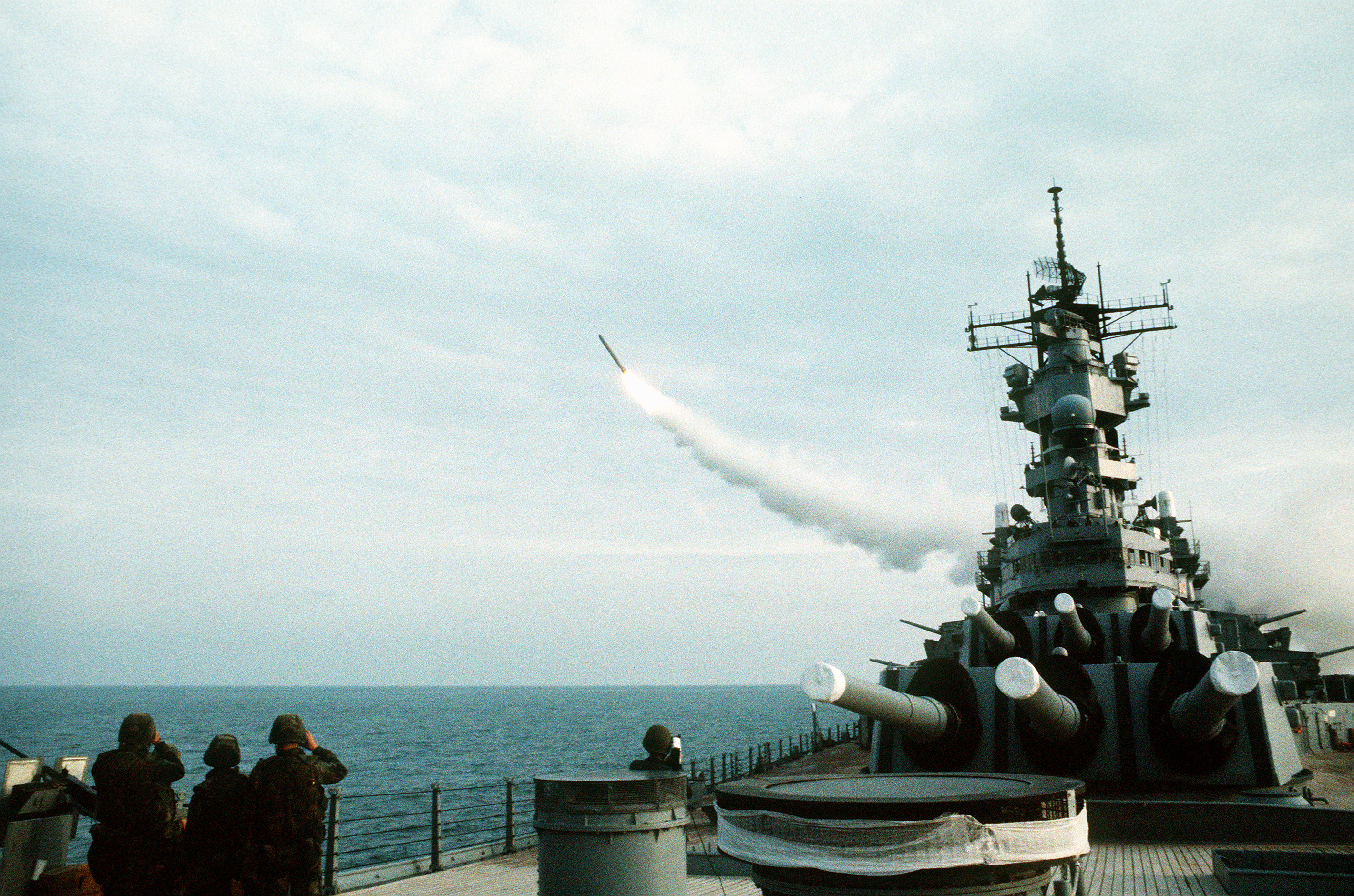 The battleship USS WISCONSIN (BB-64) launches a BGM-109 Tomahawk missile against a target in Iraq during Operation Desert Storm.